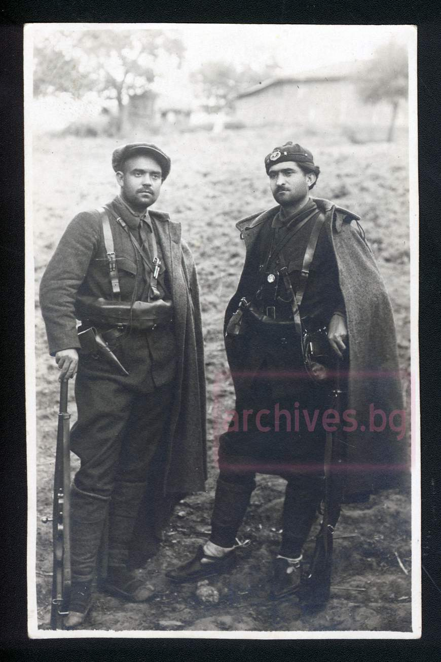 IMARO revolutionary/ies